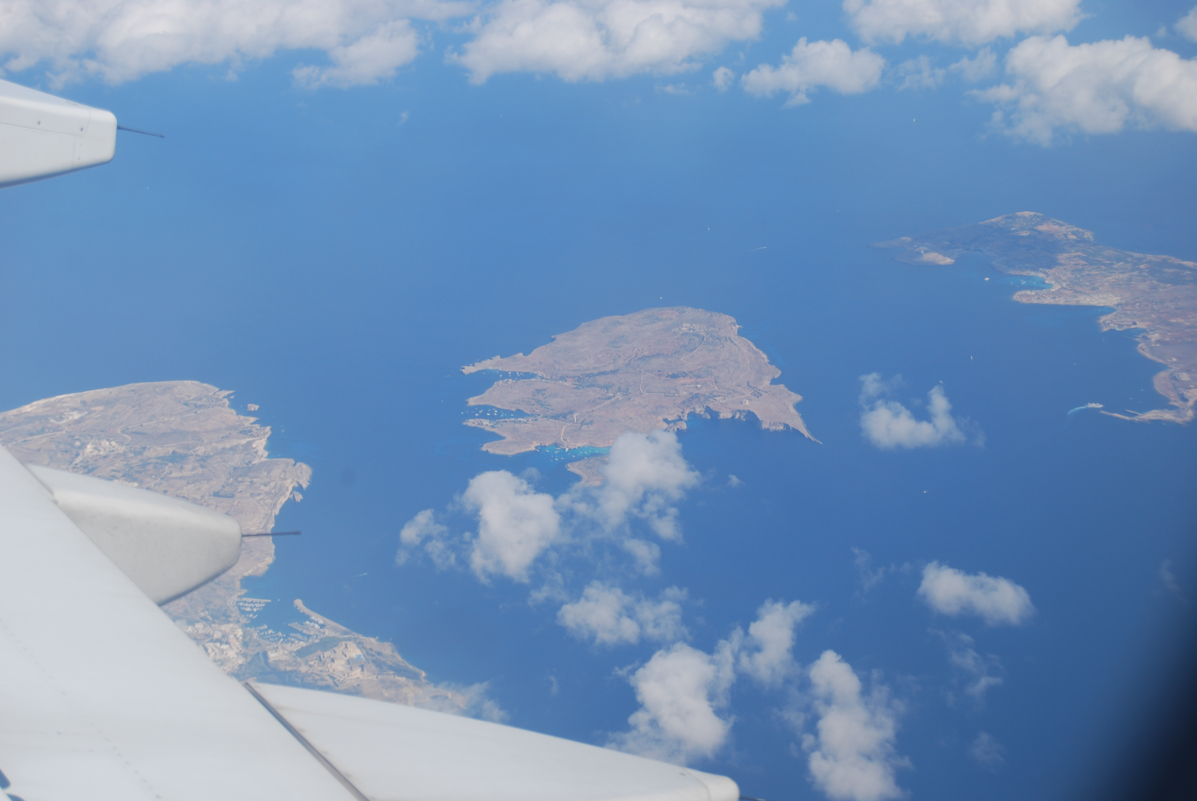 Comino, Malta